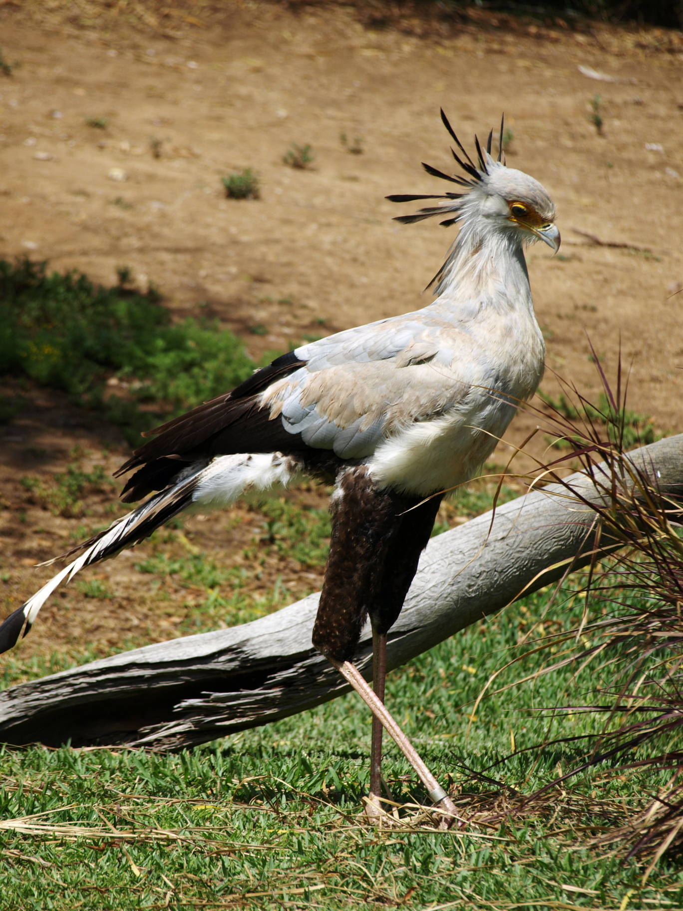 SUBJECT: Secretary Bird, San Diego Wild Animal Park LOCATION: San Diego, California, USA